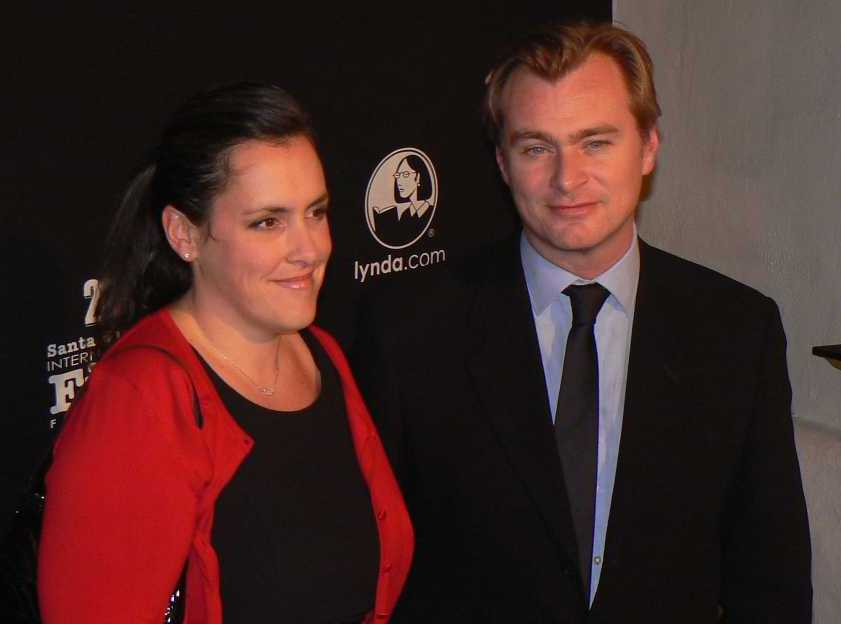 British filmmaker Christopher Nolan and his wife Emma Thomas at The Santa Barbara Independent SBIFF 2011.